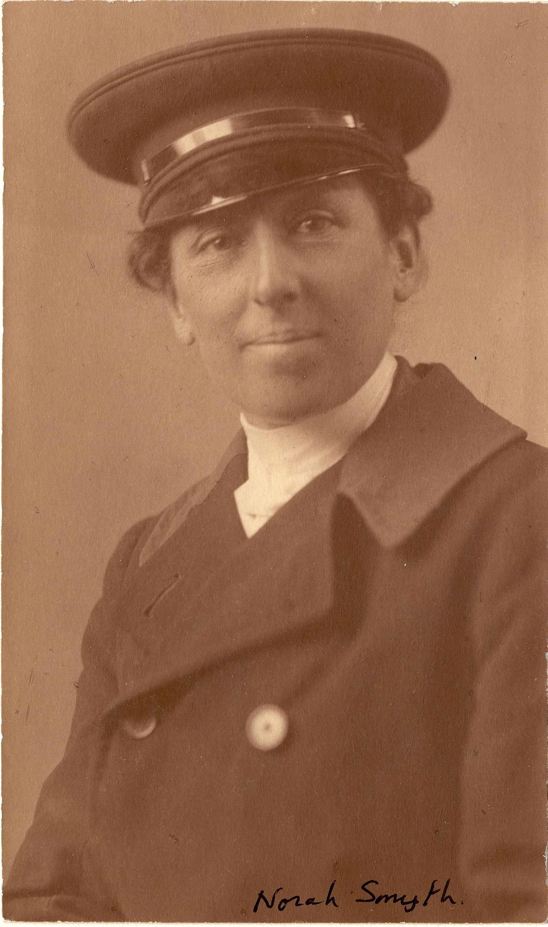 Norah Lyle-Smyth (22 March 1874 – 1963) was a British suffragette, photographer and socialist activist. TWL 2009 02 147